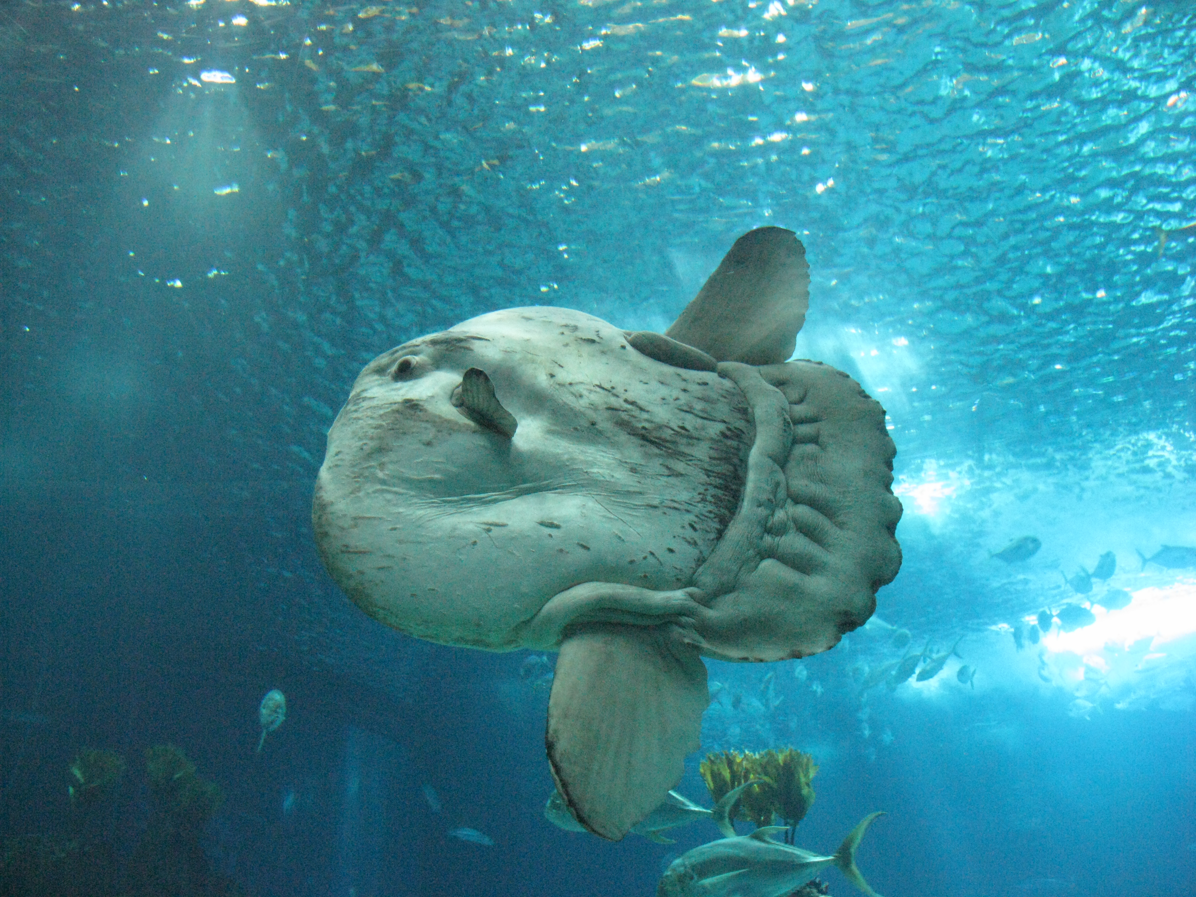 Mola mola (Sunfish)